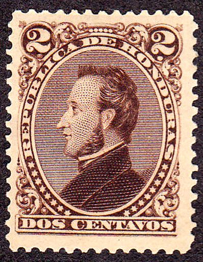 Honduras postage stamp depicting José Francisco Morazán, 1878 issue